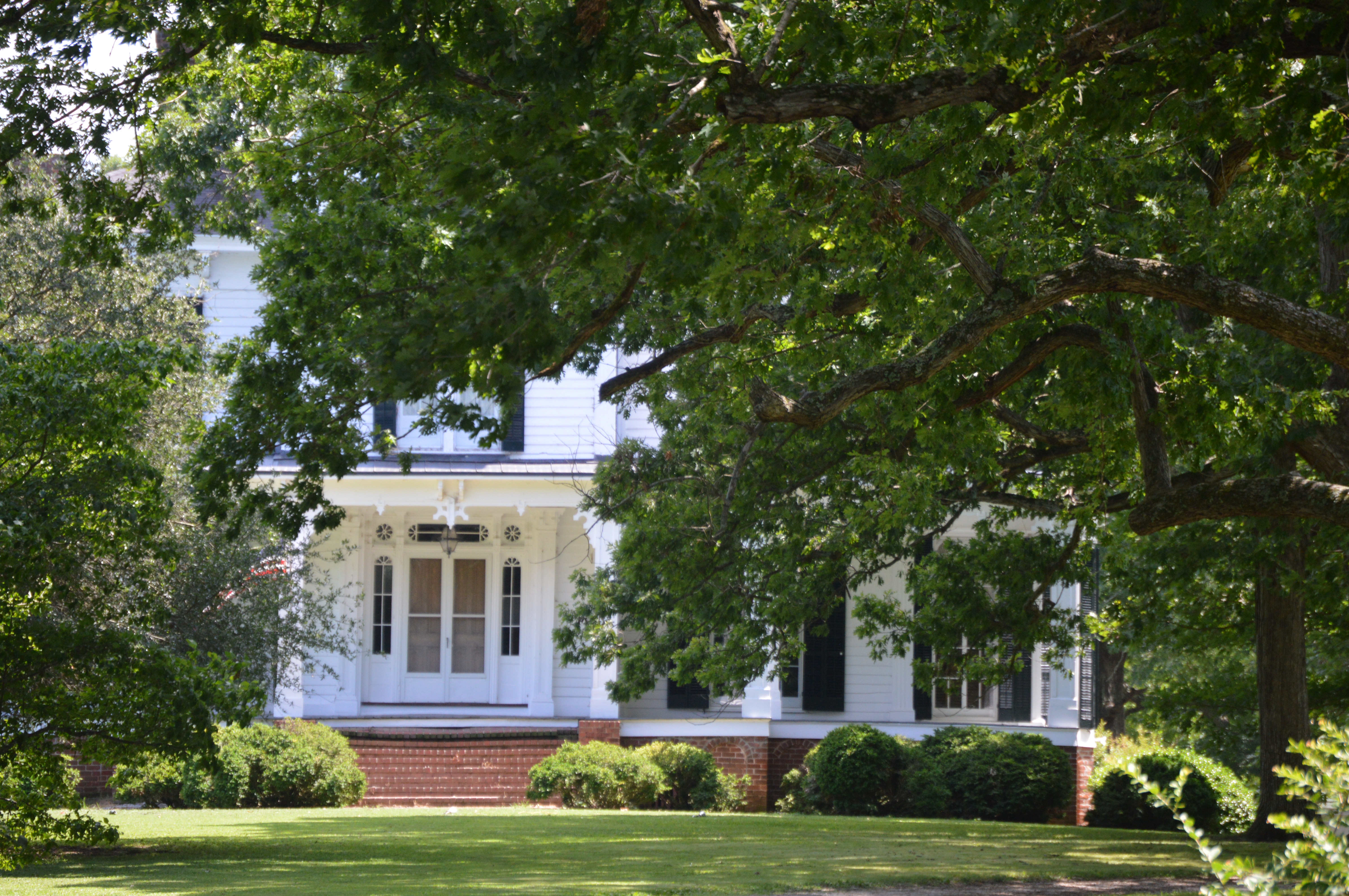 Front of Eureka, located on Eureka Road southeast of Boydton in Mecklenburg County, Virginia, United States. Built in 1854, it is listed on the National Register of Historic Places.